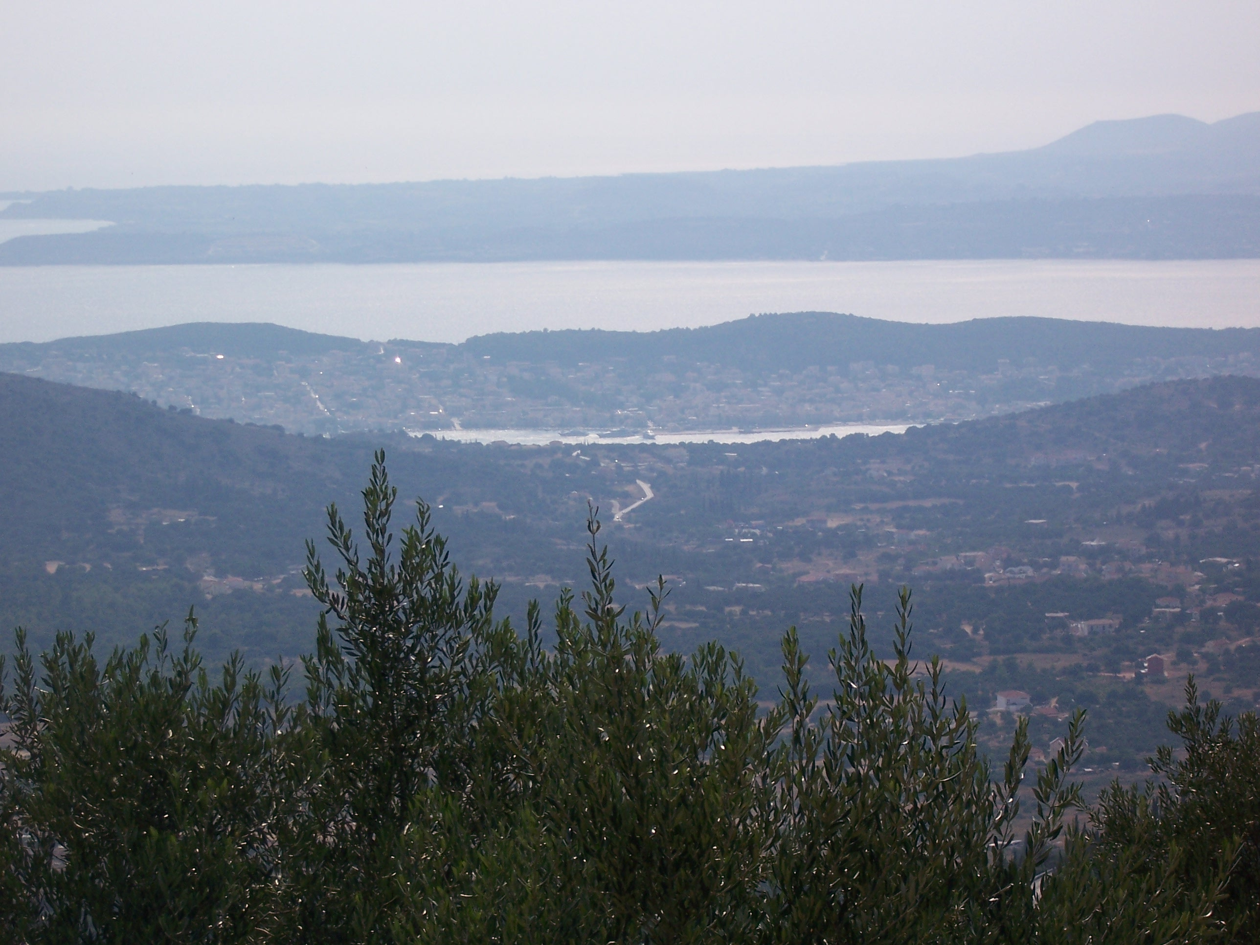 argostoli